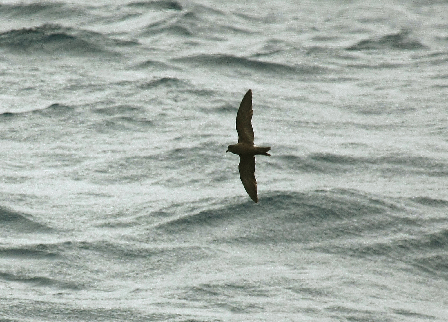 Leach's Storm Petrel Oceanodroma leucorhoa off Nantucket, USA. Note long narrow wings, forked tail, lack of white on undertail coverts.